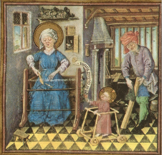 The Holy Family at Work. 92. From the Book of Hours of Catherine of Clèves, decorated by the Dutch artist, the Clèves Master, c. 1440.